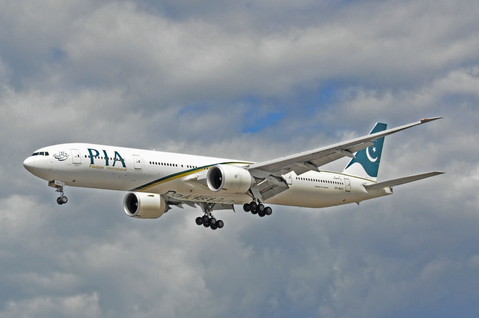 Boeing 777-340ER - Pakistan International Airlines (AP-BHV)